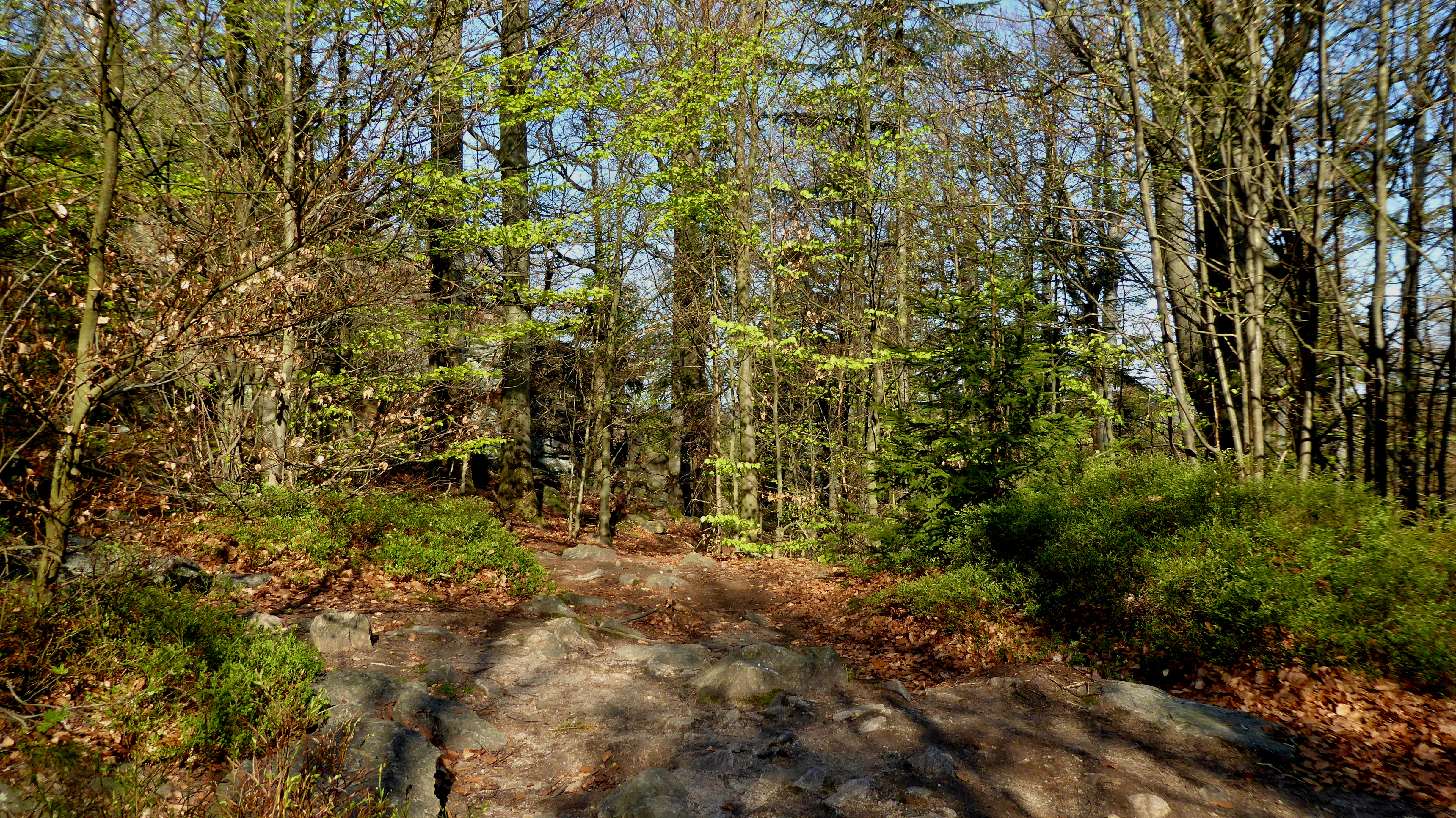 "Pasecká" Rock (819 m asl) in the georelief of the "Pohledeckoskalská" Highlands. The top part with rock outcrops and forest stands is a specially protected territory of a natural monument in the Žďár Hills Protected Landscape Area. Photo-location: Czechia, "Vysočina" Region, village "Studnice" (part of town "Nové Město na Moravě), "Pohledeckoskalská" Highlands, "Pasecká" Rock, view from the hiking route of the Club of Czech Tourists, green mark (0°).